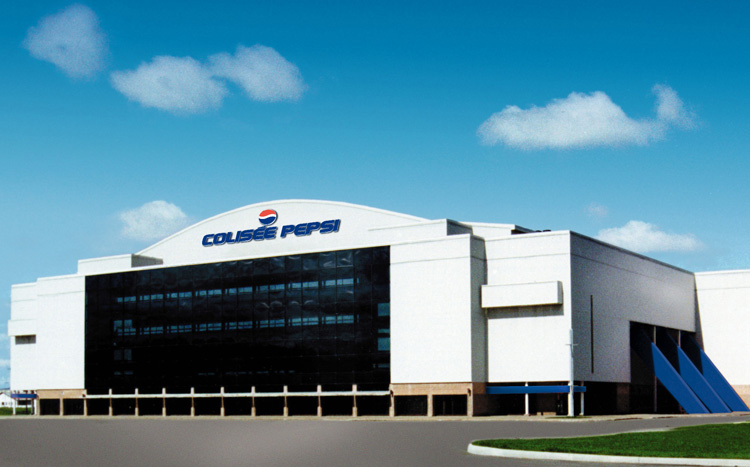 Pepsi Coliseum